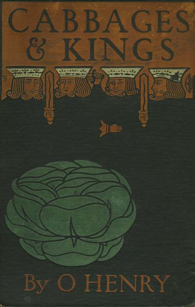 O. Henry, 1862-1910. Cabbages and Kings. New York: McClure, Phillips & Co., 1904.